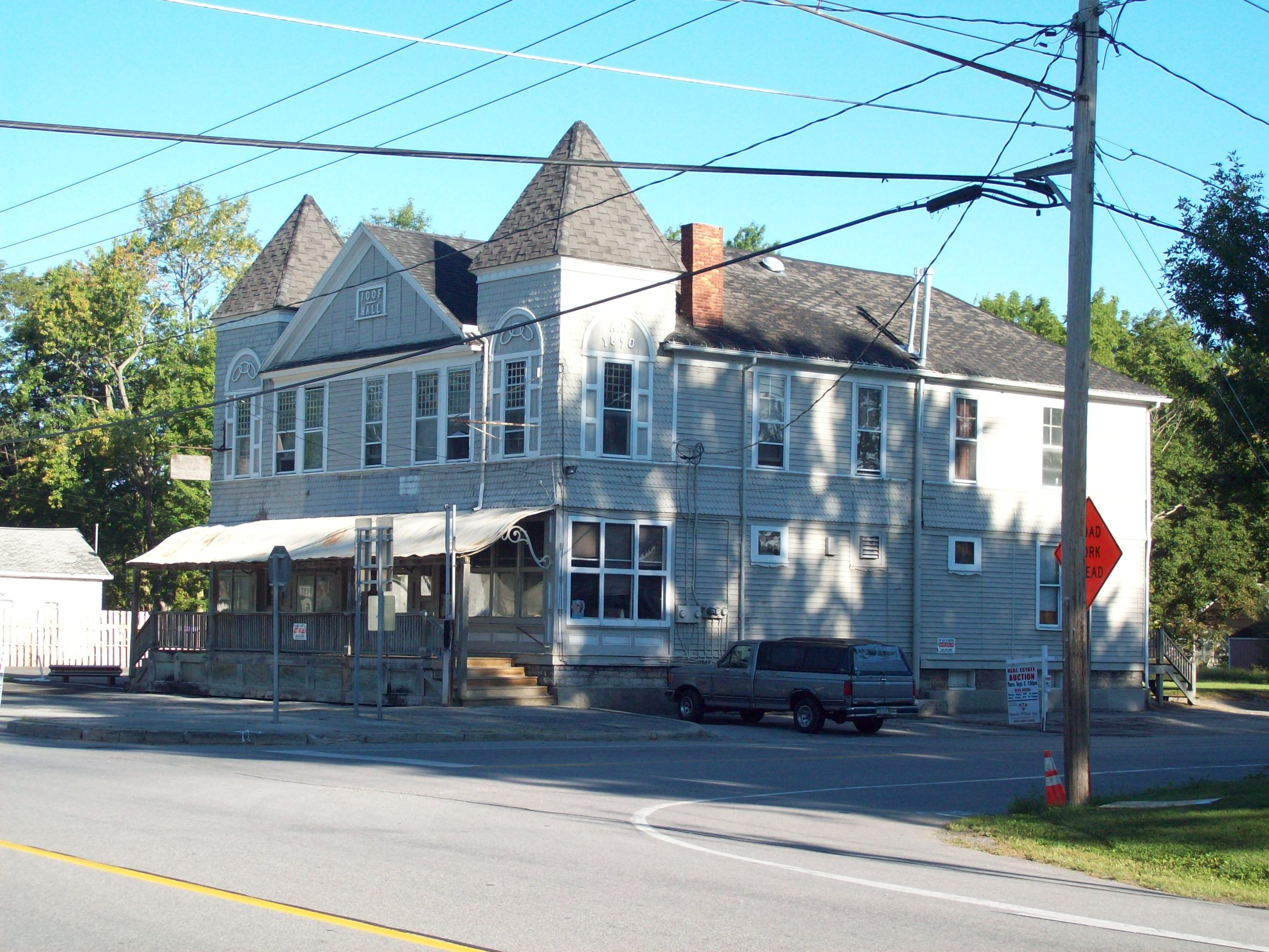 Stafford Village Four Corners Historic District - Commercial Block, August 2010